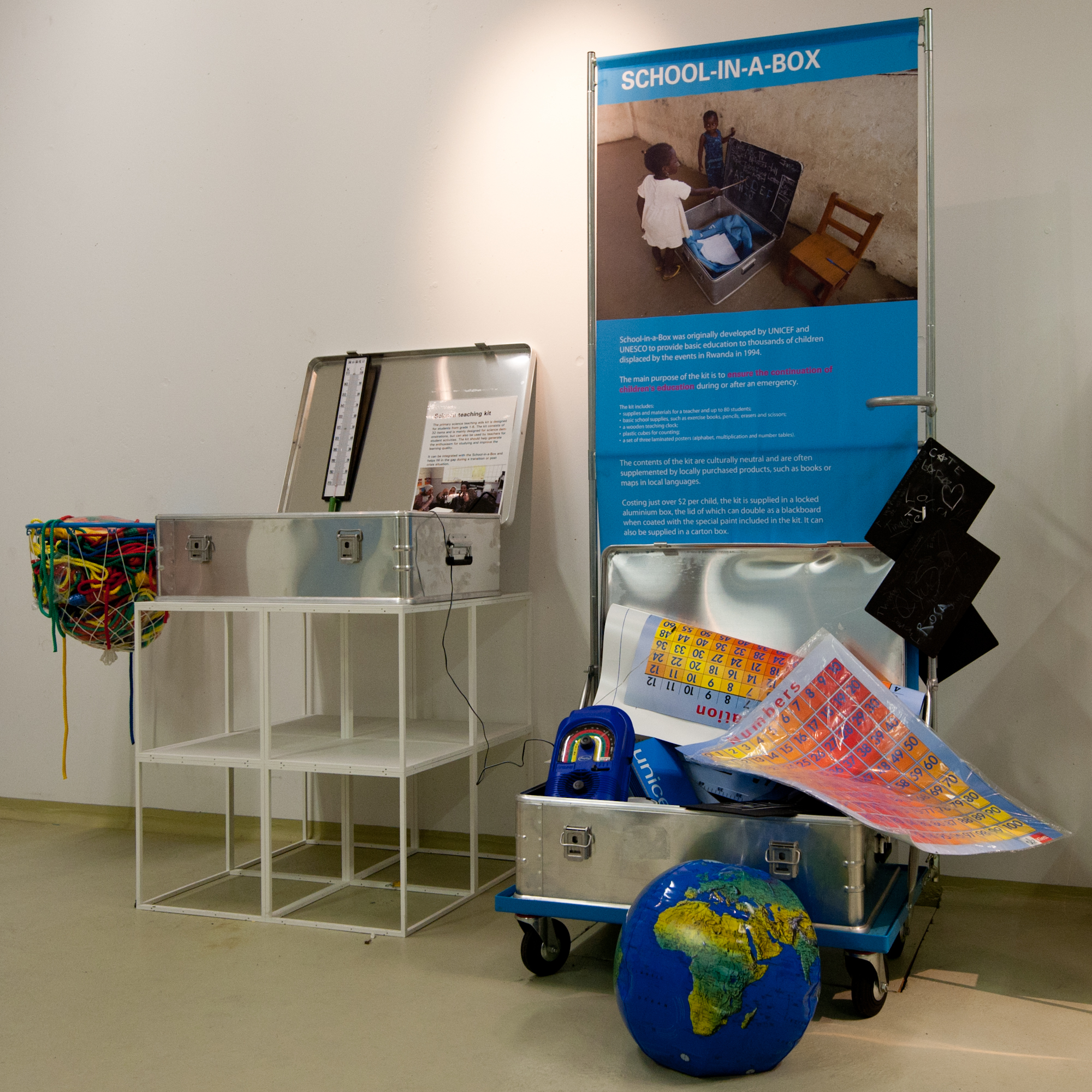 1 School in a box-assembly from UNICEF contains basic school suplies for 1 teacher and 80 students